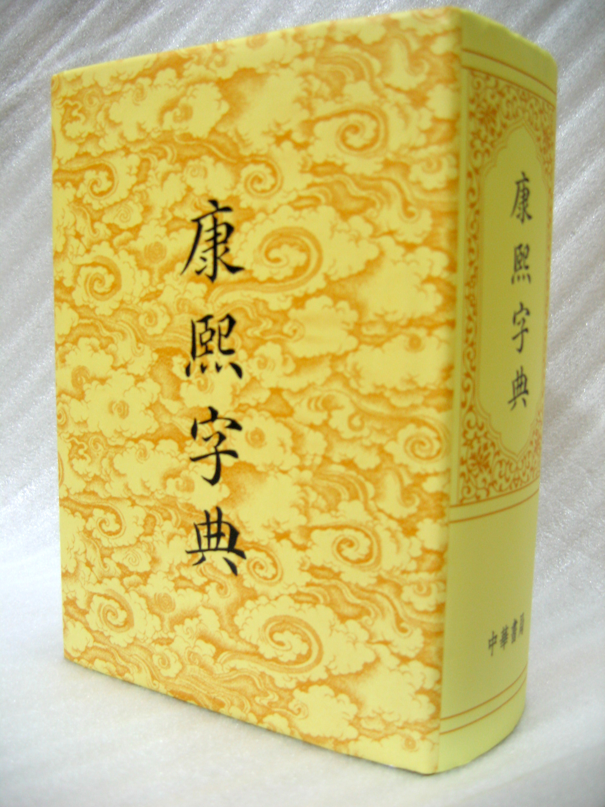 K'ang Hsi Dictionary 康熙字典